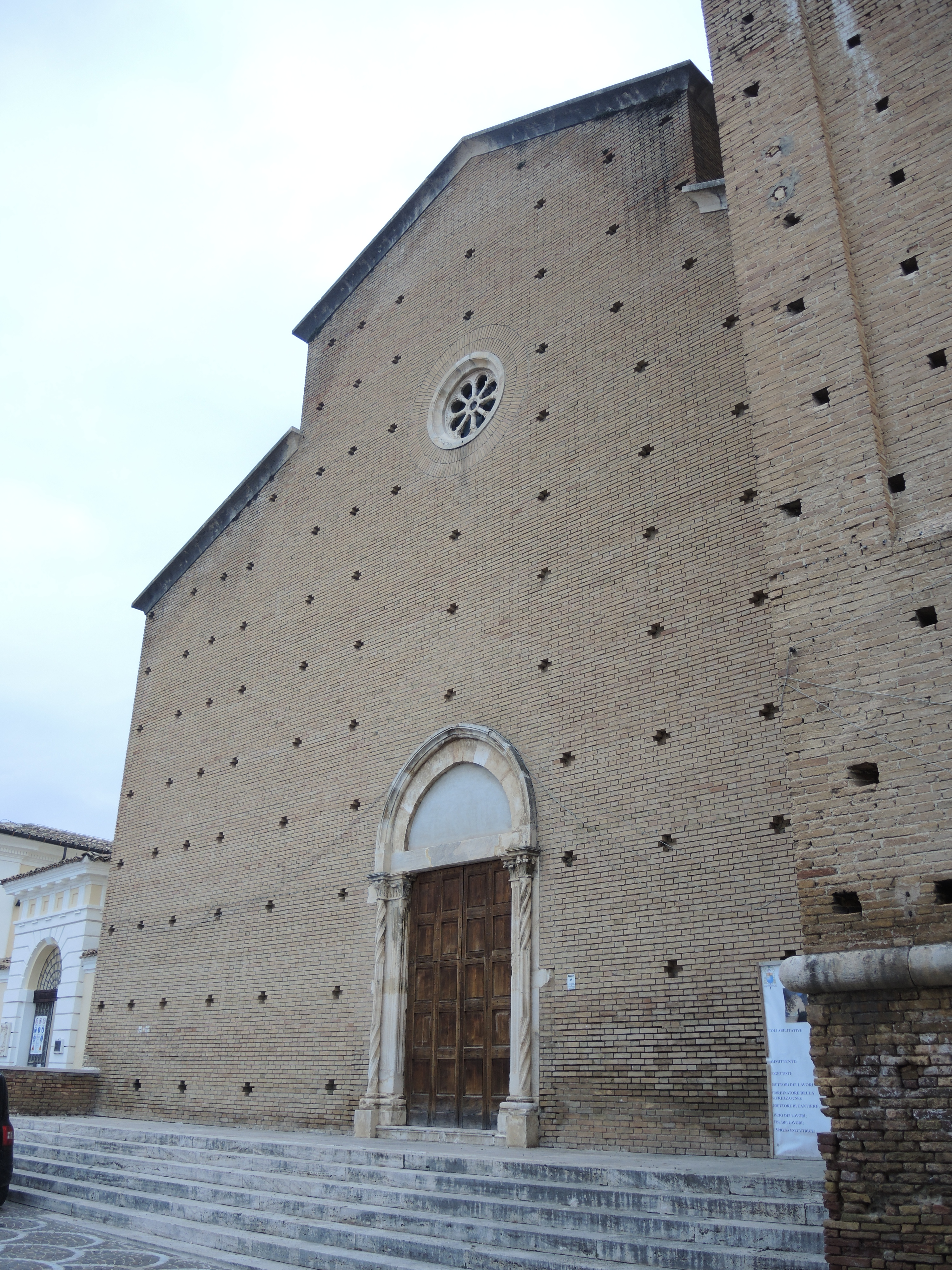 Penne: Duomo di San Massimo